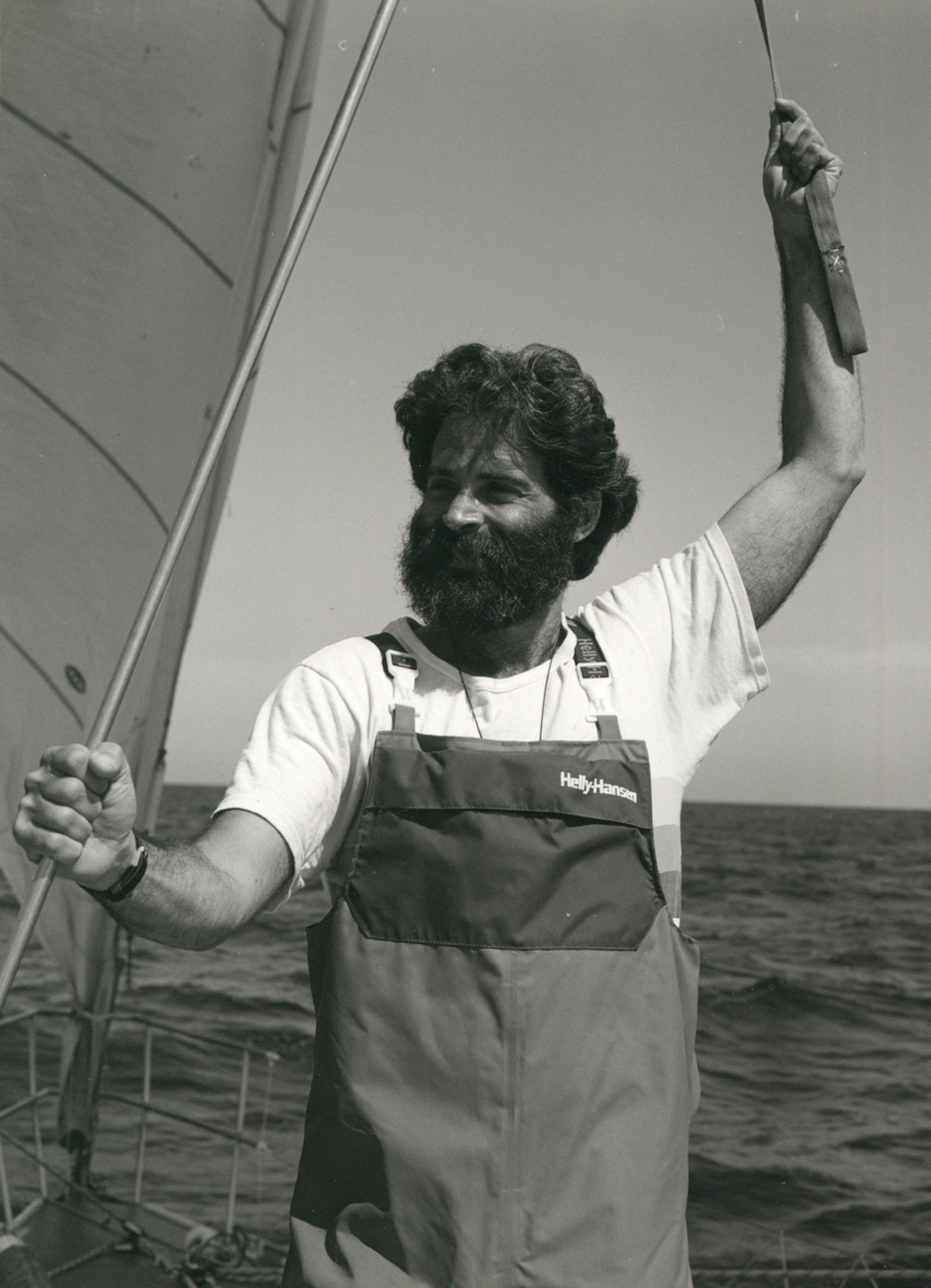 Jeff Nadler crew of Whitbread race around the world 1995 to 1996